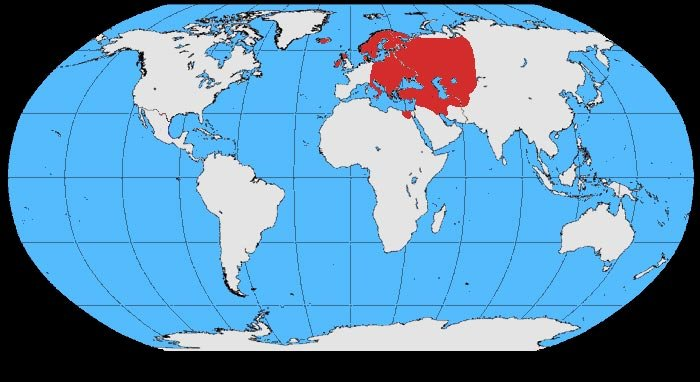 Steve nova's hand coloured distribution map of Hooded Crow (Corvus cornix, sometimes referred to as Corvus corone cornix)